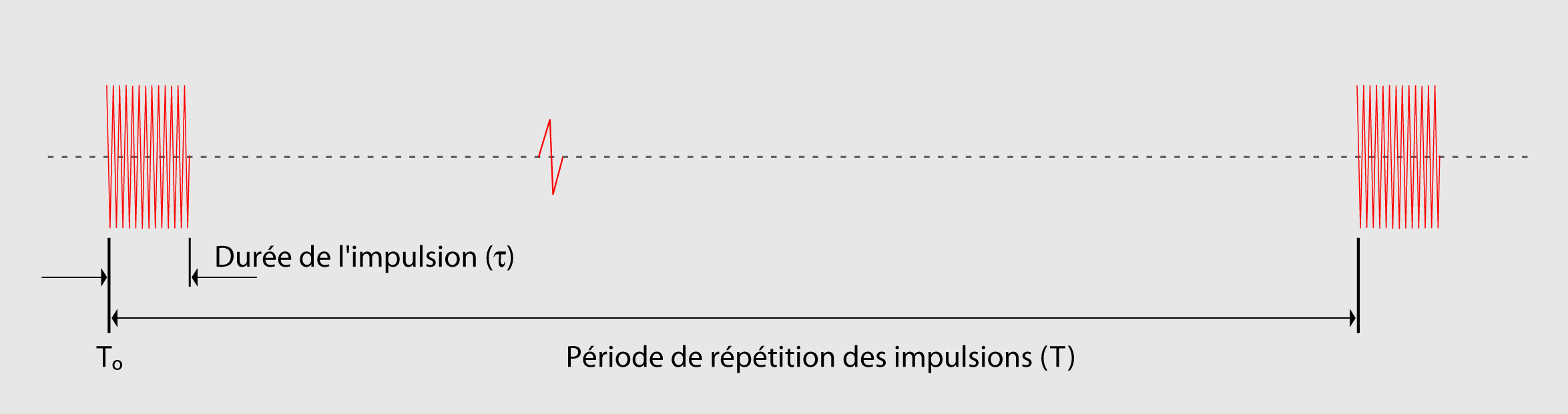 Time domain diagram of a radar carrier modulated with a pulse train (after TJC - English WP).